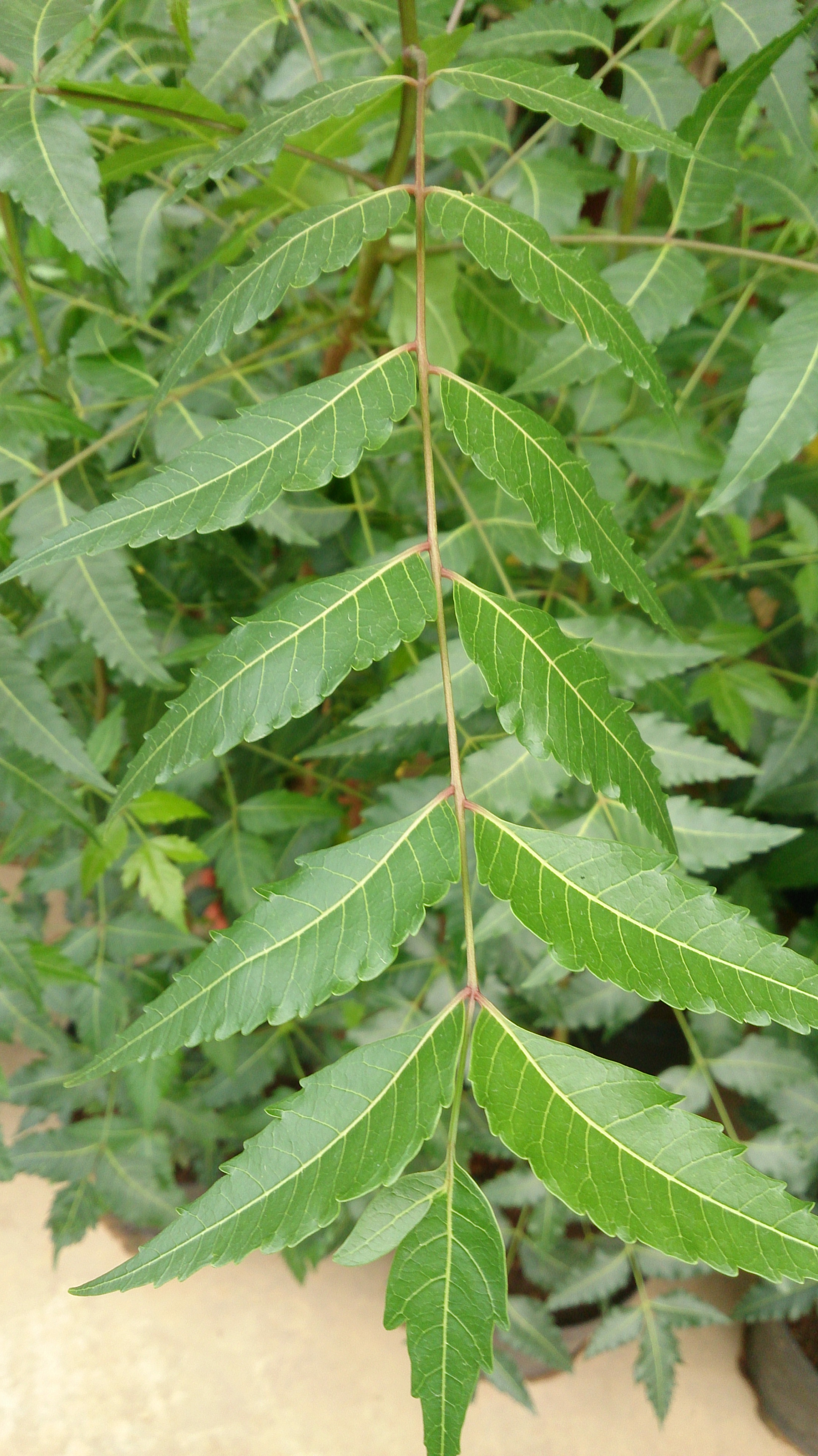 Azadirachta indica. Common names: Indian Lilac. Neem Tree.